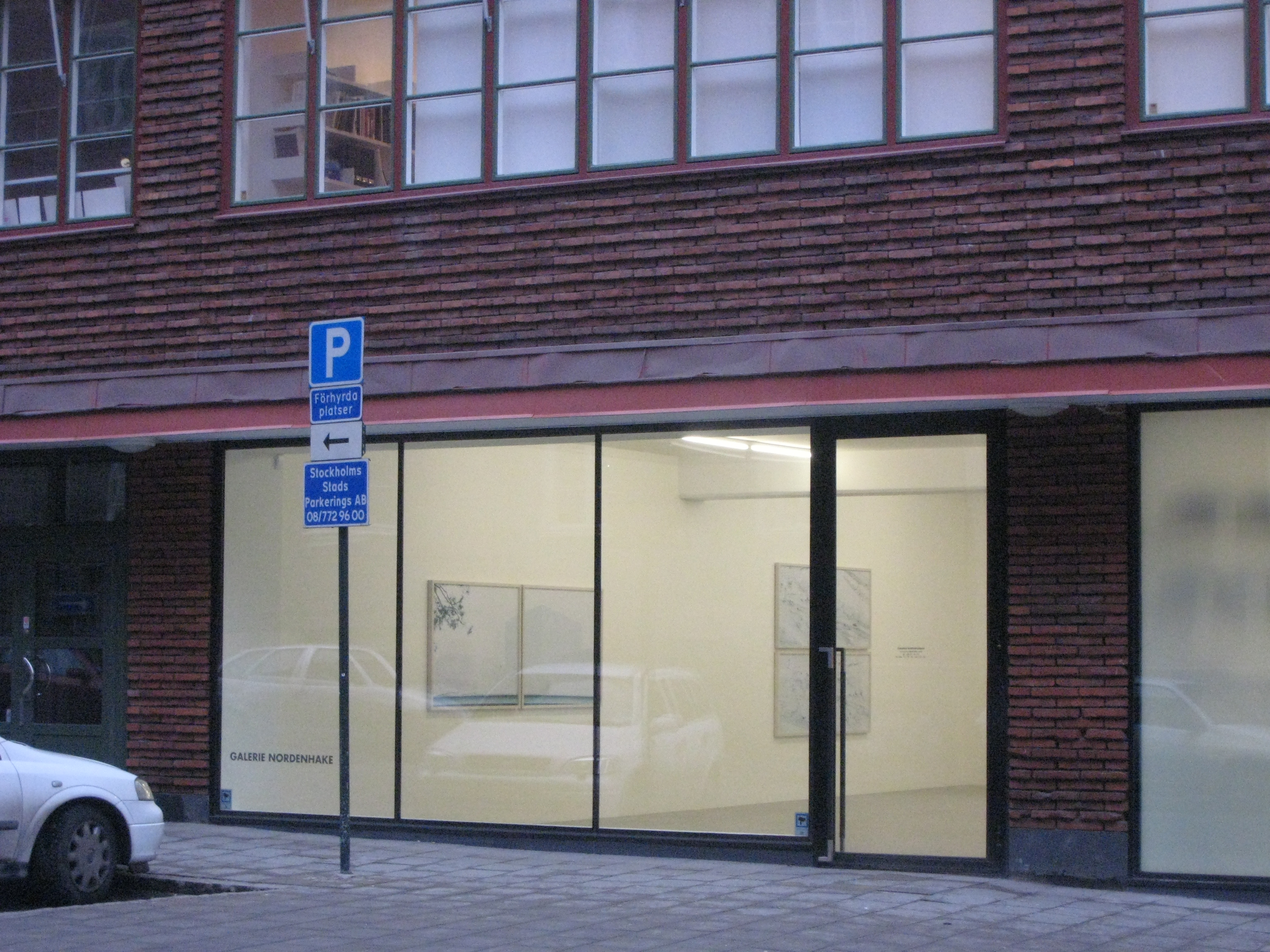 Gallery Nordenhake Stockholm